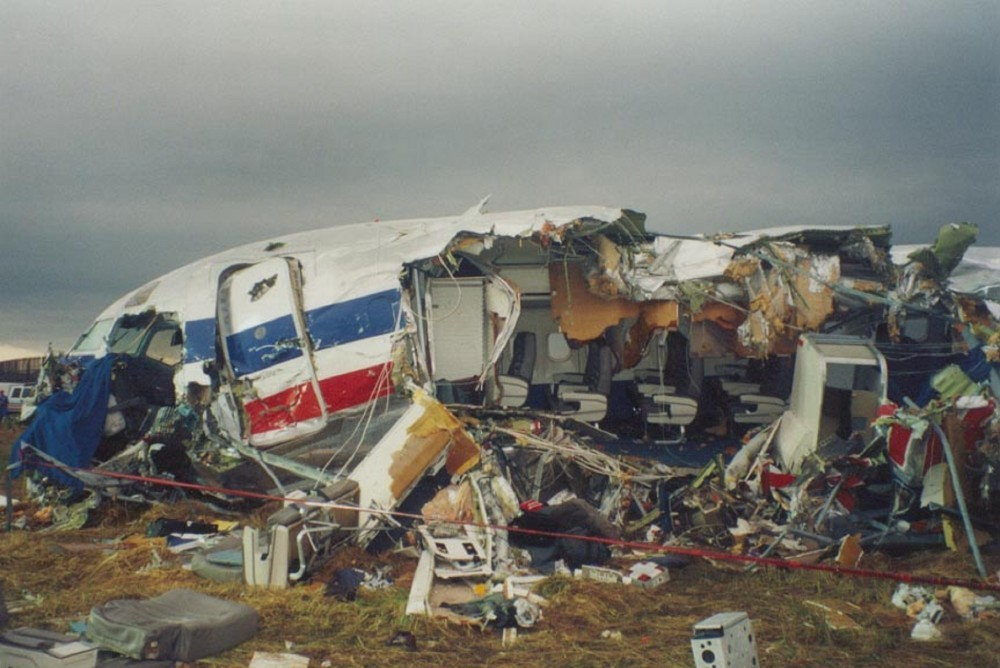 American Airlines Flight 1420（N215AA） Wreckage